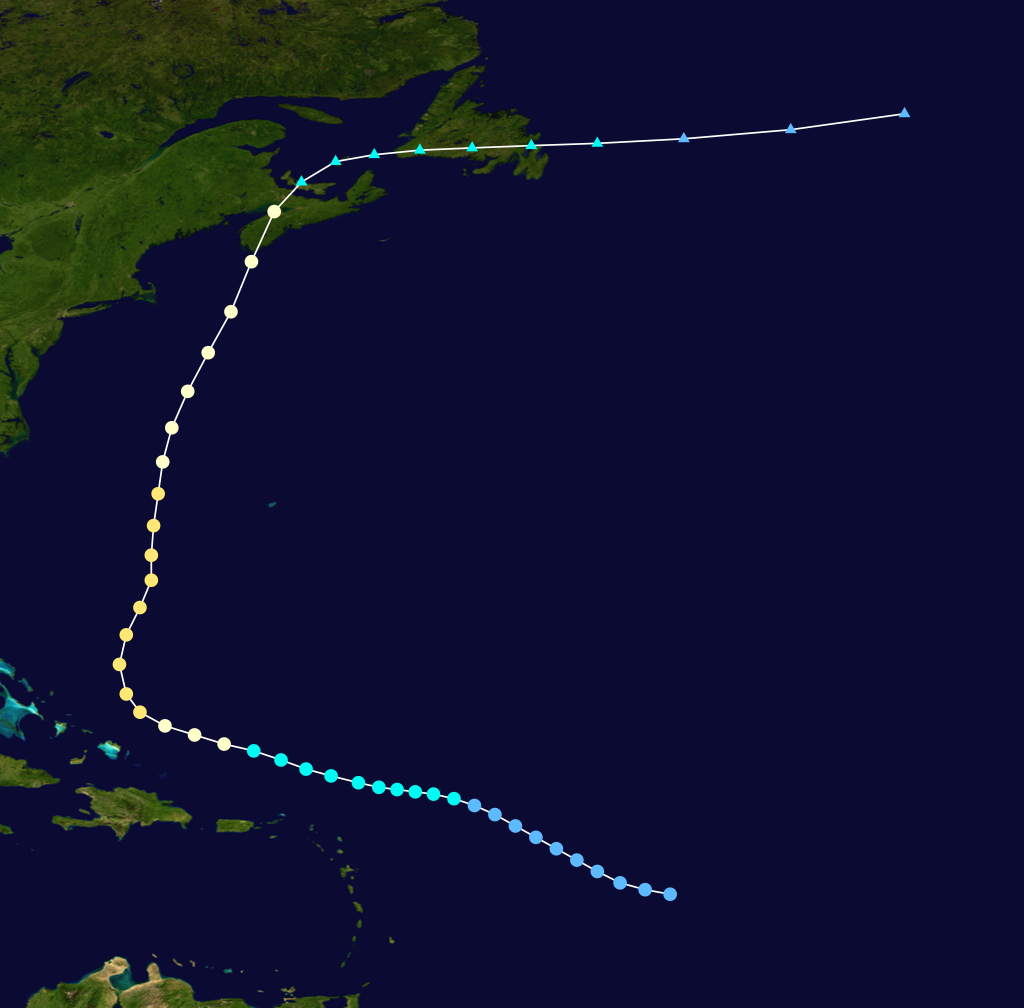 1940 Atlantic hurricane 5 track. Uses the color scheme from the Saffir-Simpson Hurricane Scale.